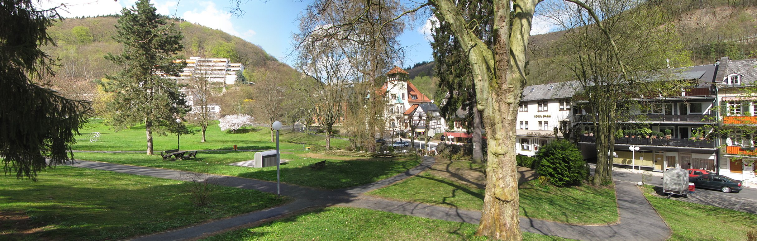 Schlangenbad